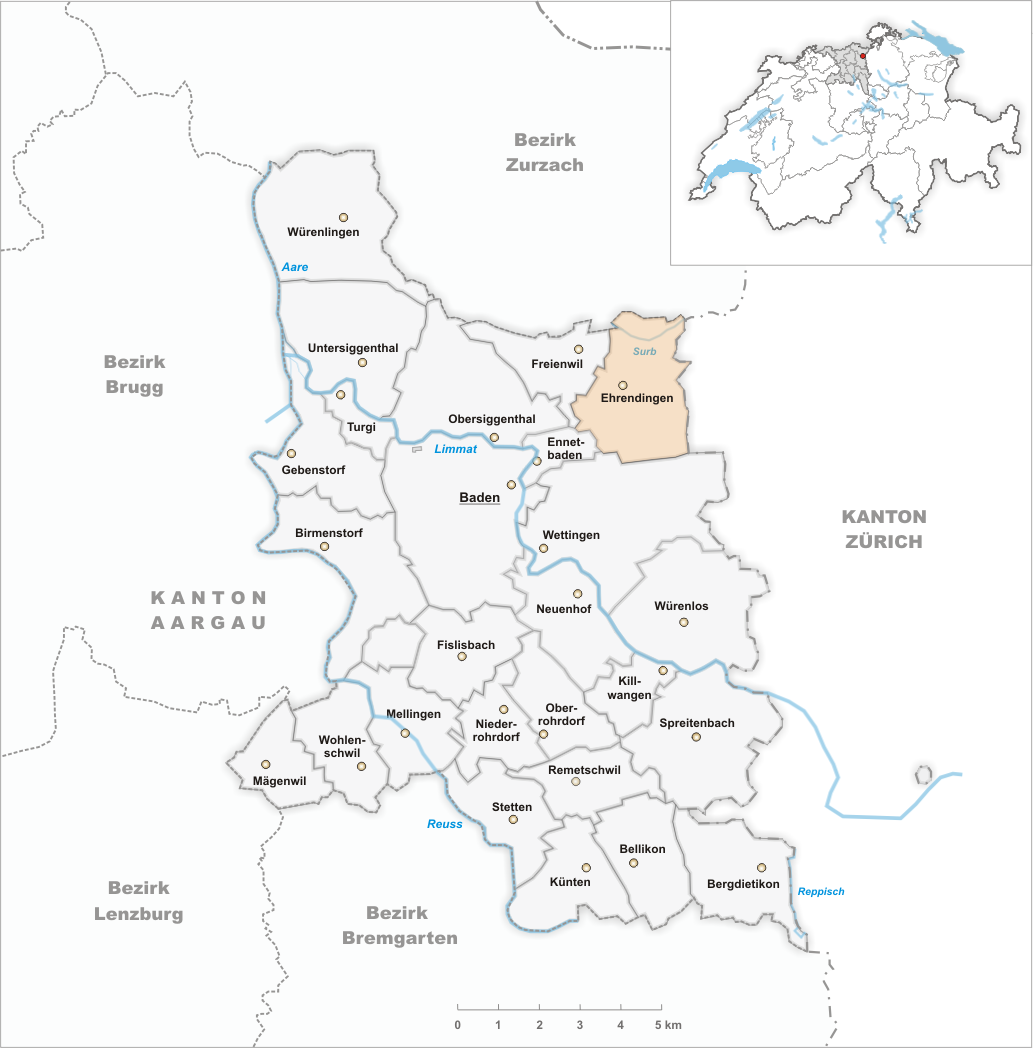 Municipality Ehrendingen